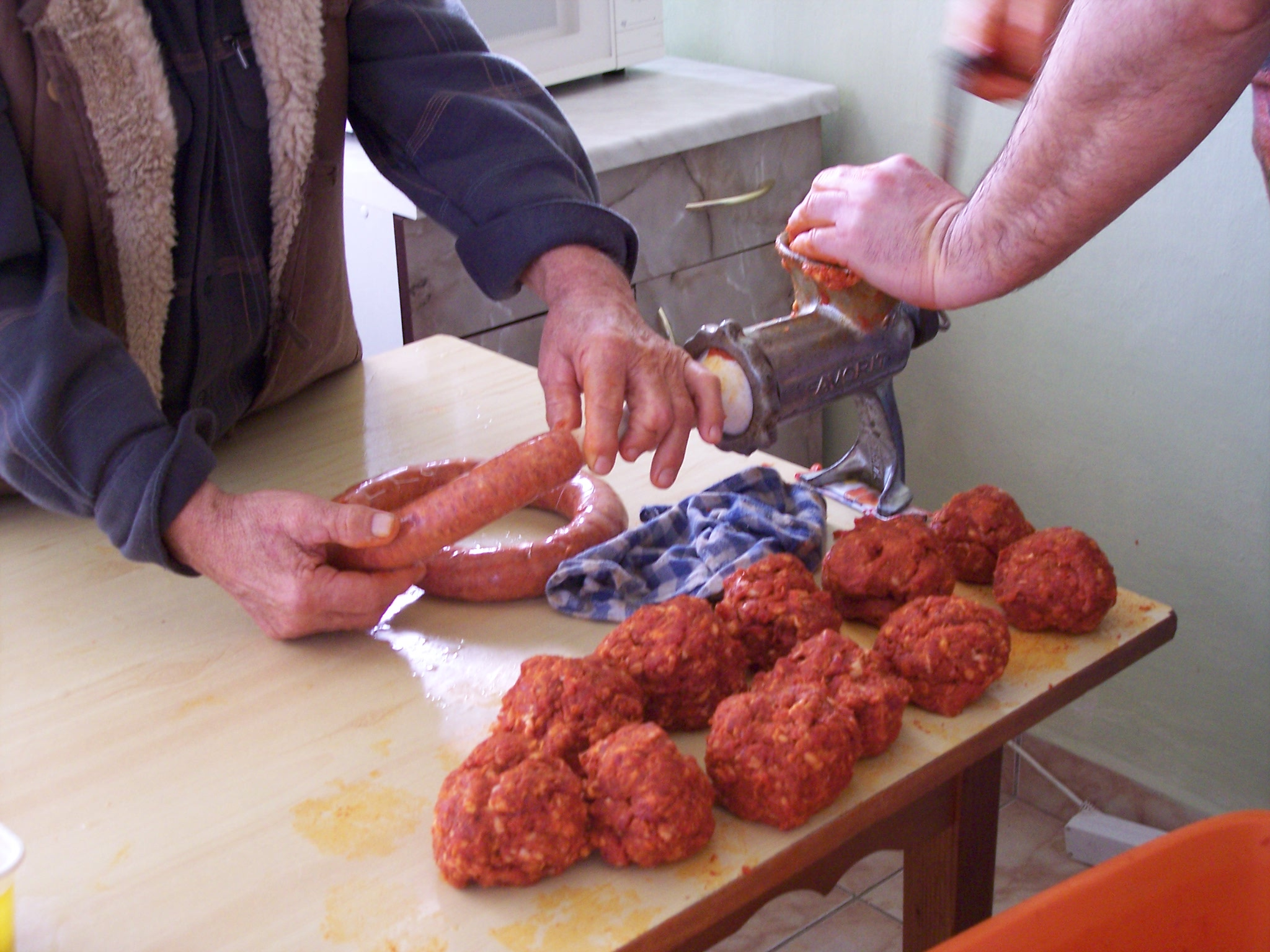 Ordinary sausage making in Hungary